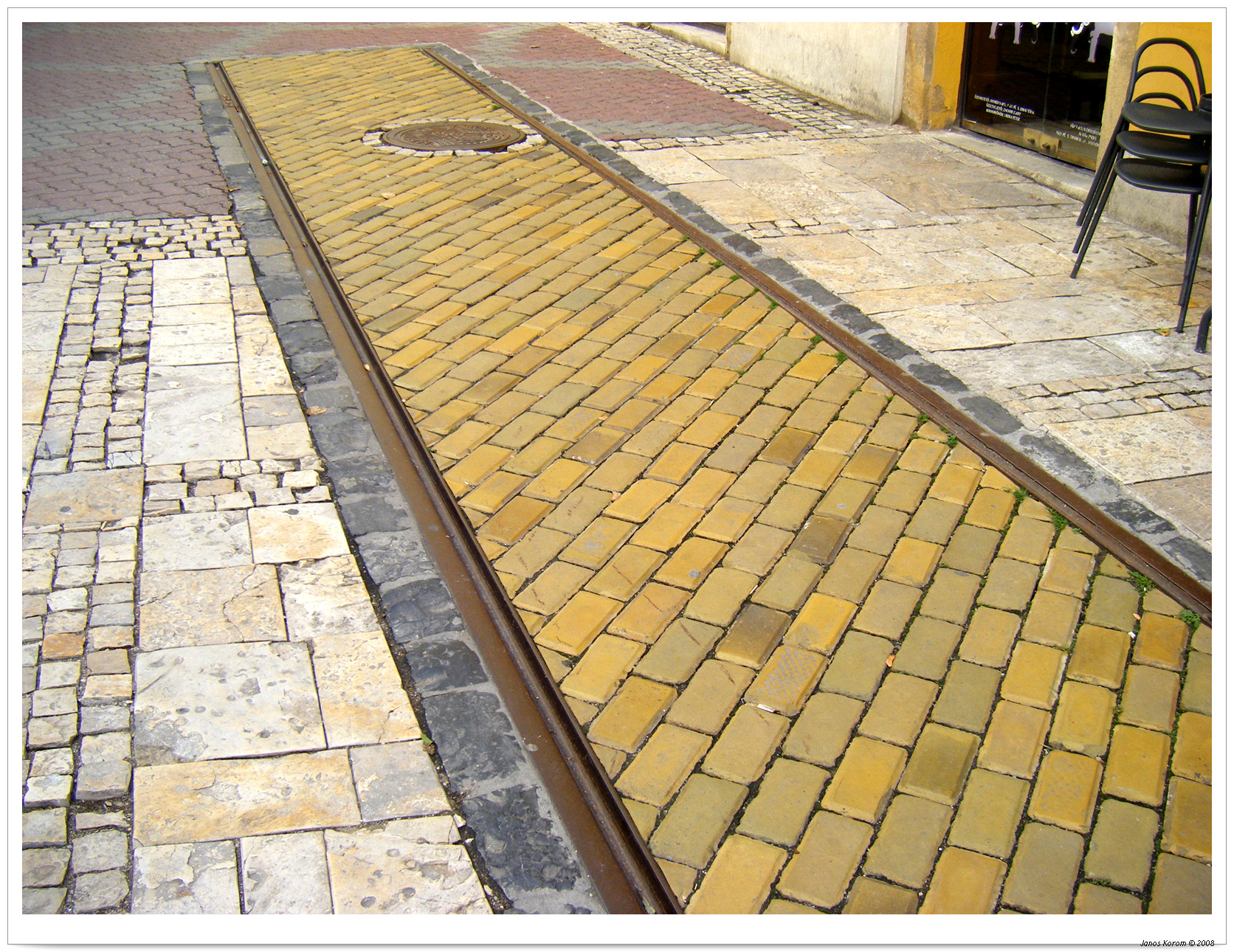 Old tram way marks the trace of the once existing public transport in Pecs. Jókai square.